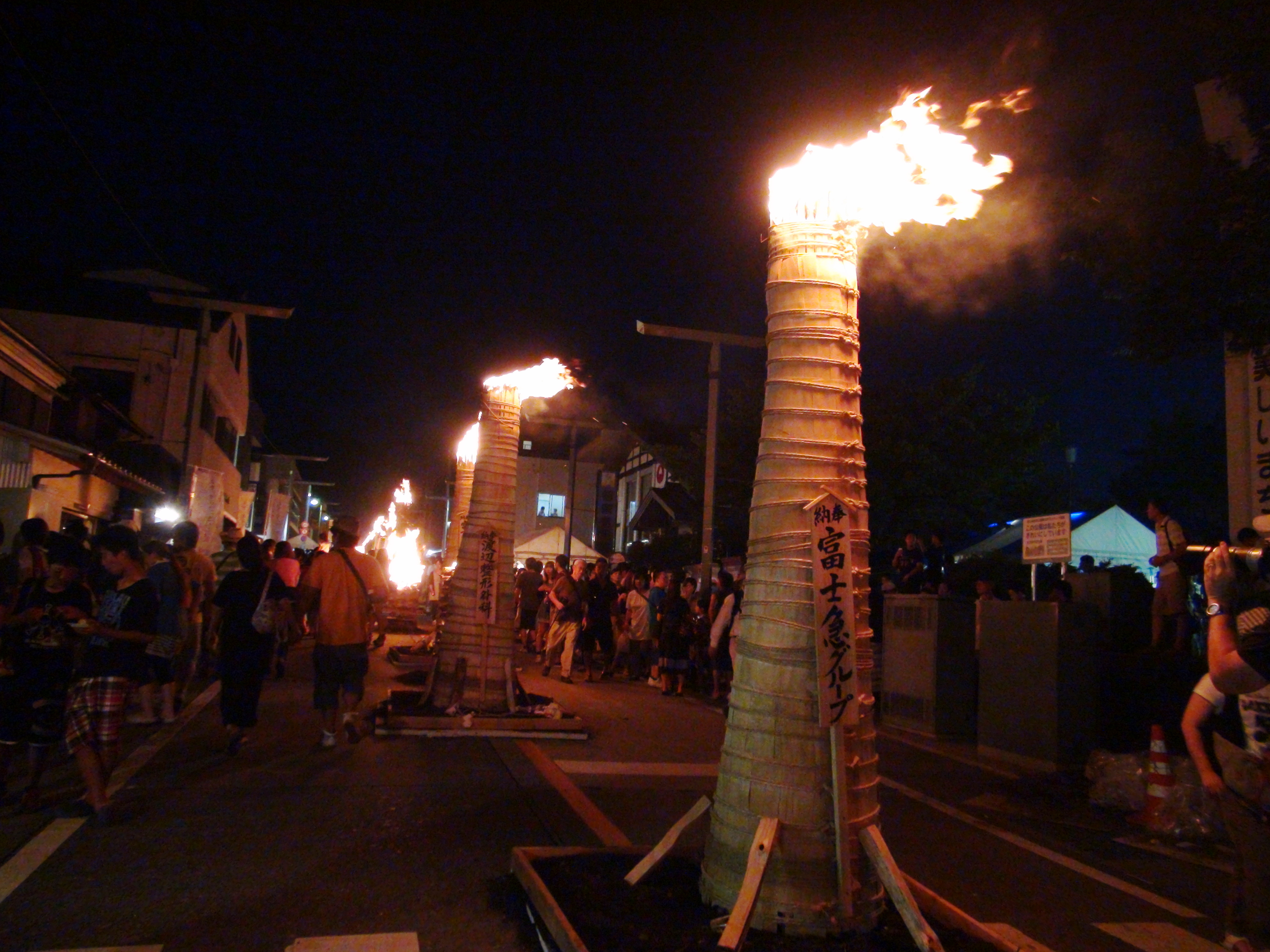 Torches burning Yoshida Fire Festival.